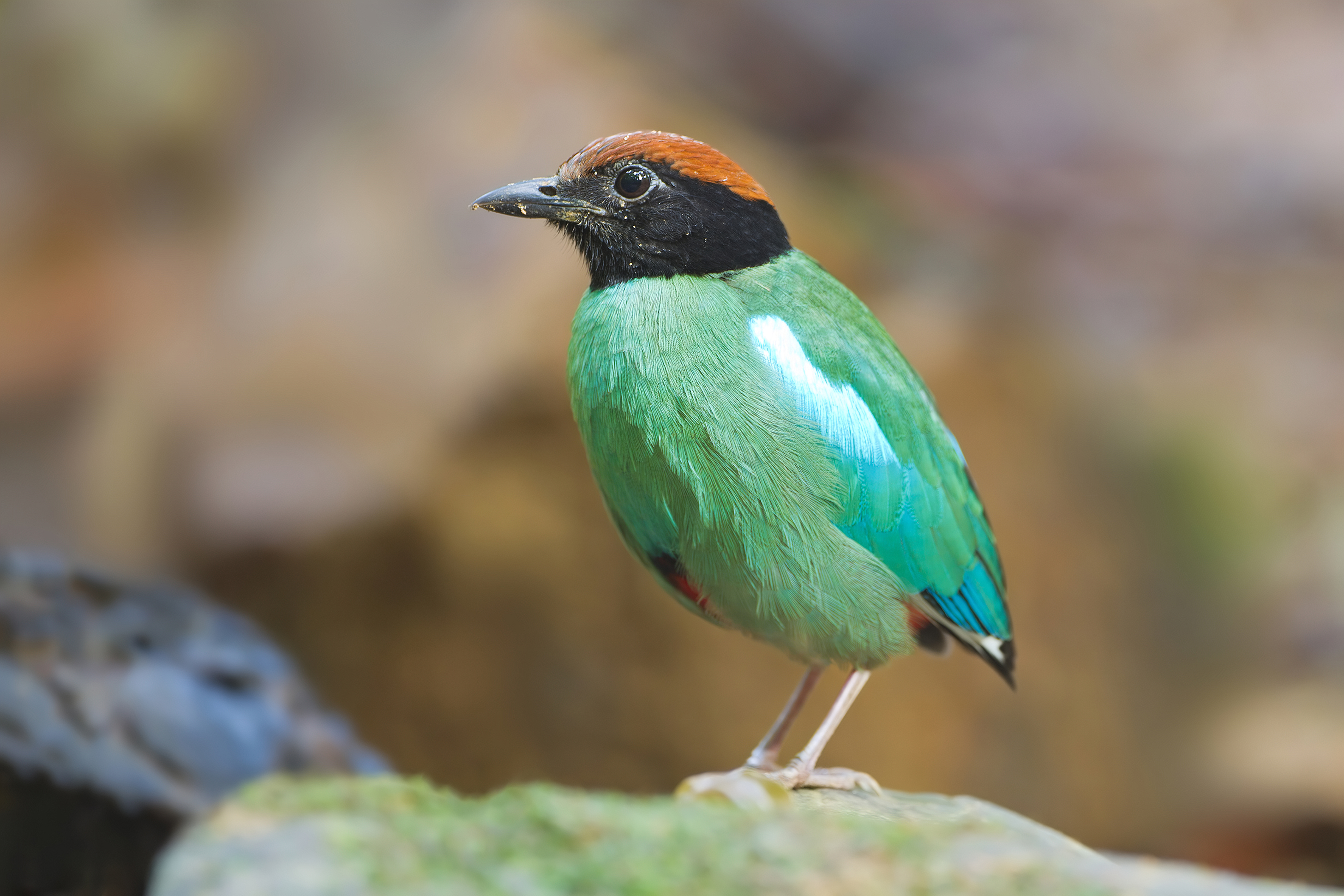 Hooded Pitta (Pitta sordida), Sri Phang Nga National Park, Phang Nga, Thailand